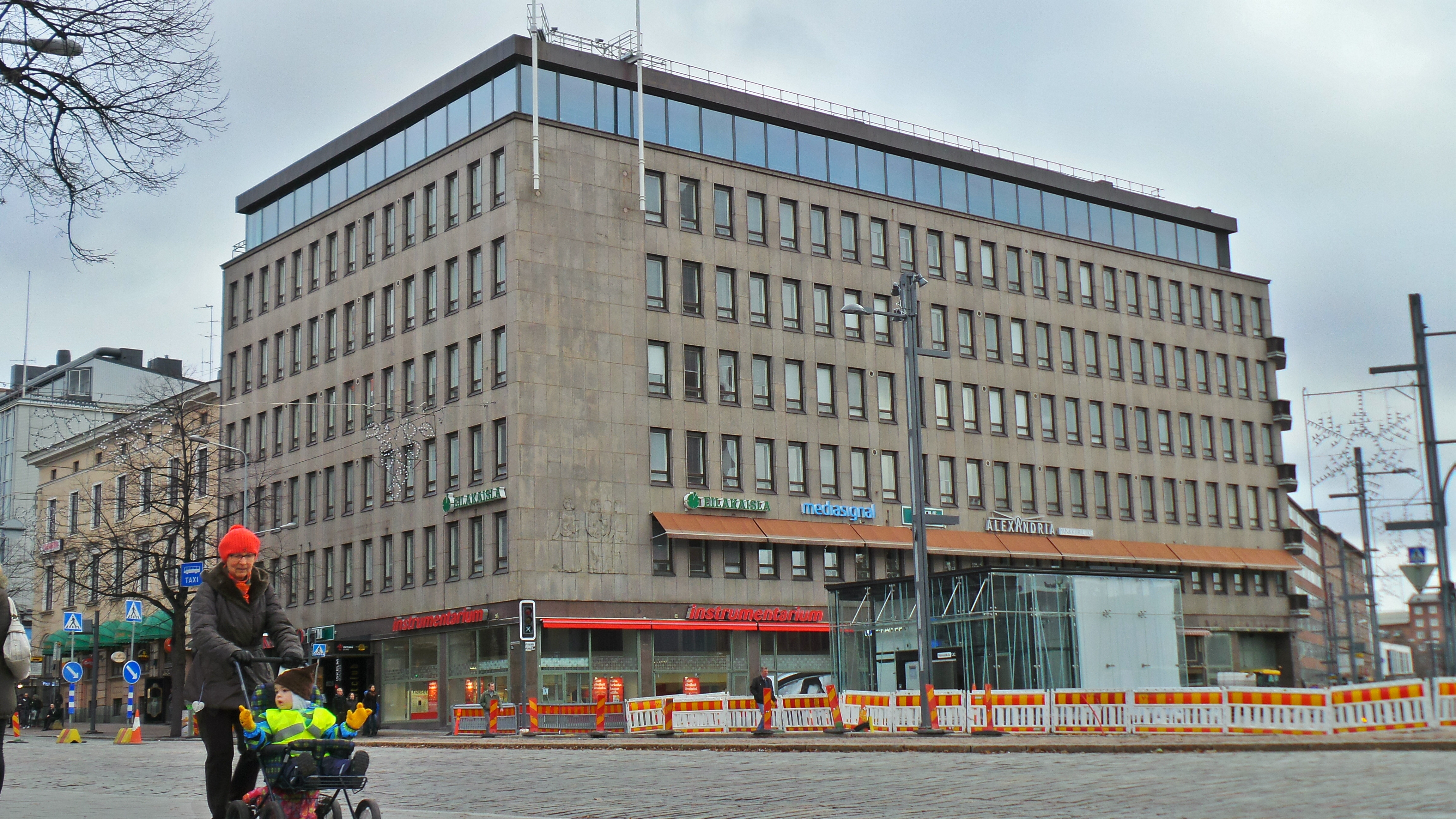 Woman with child near Hämeenkatu